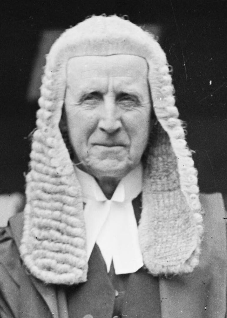 Australian politician Albert Piddington